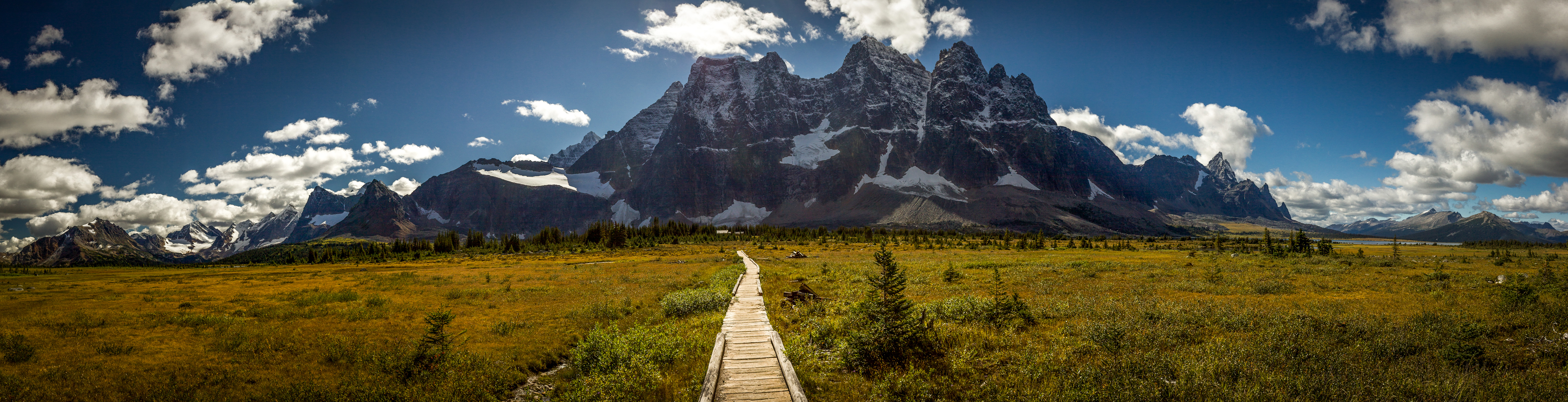 Jasper NP, Alberta, Canada.